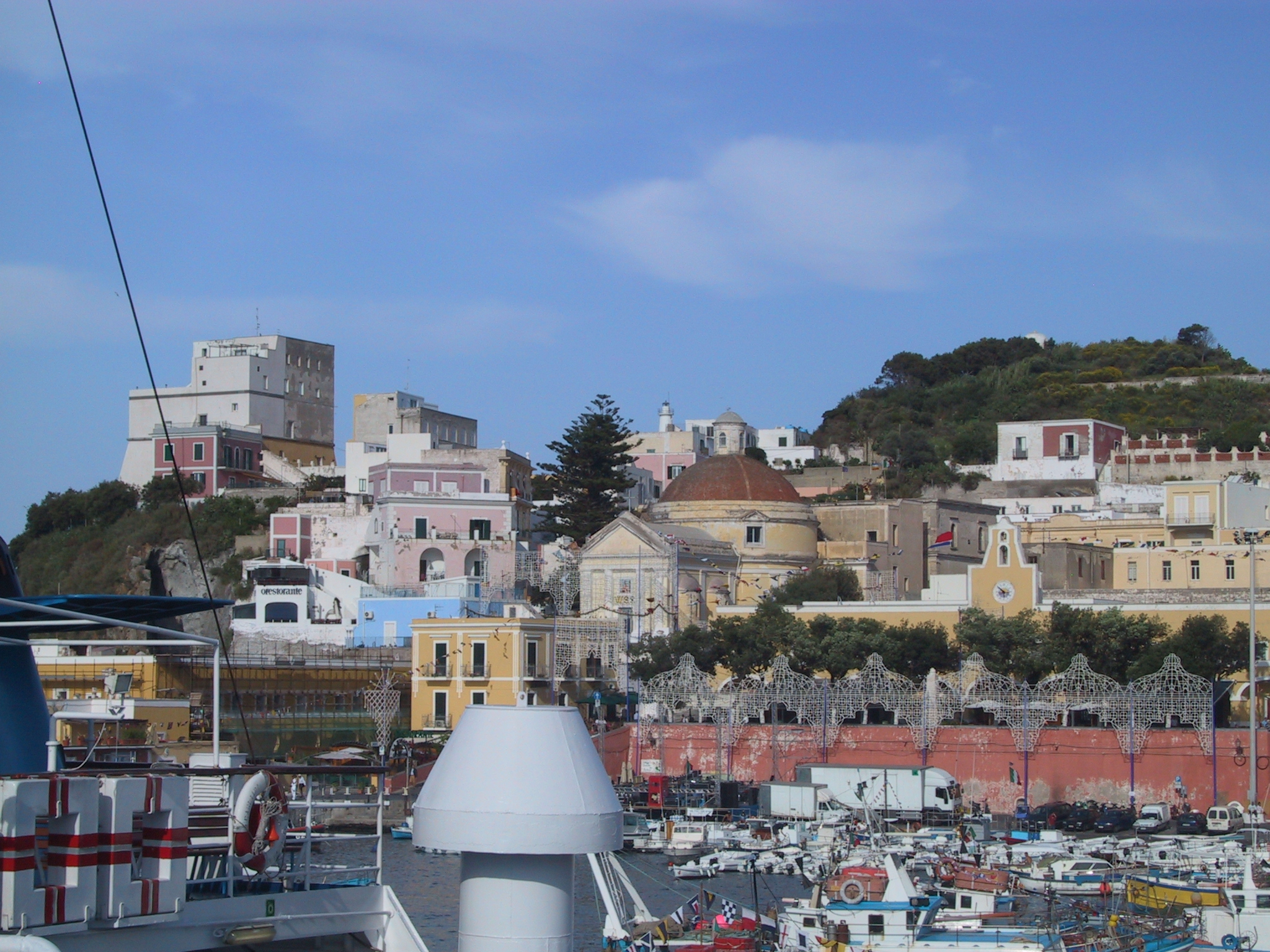 Port of Ponza.